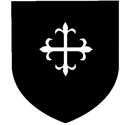 The crest of the baronets Mannock of Gifford's Hall reproduced from the blazon in "A Genealogical and Heraldic History of the Extinct and Dormant Baronetcies of England, Ireland, and Scotland" by John Burke and Sir Bernard Burke (1844). Arms - Sable, a cross flory, argent